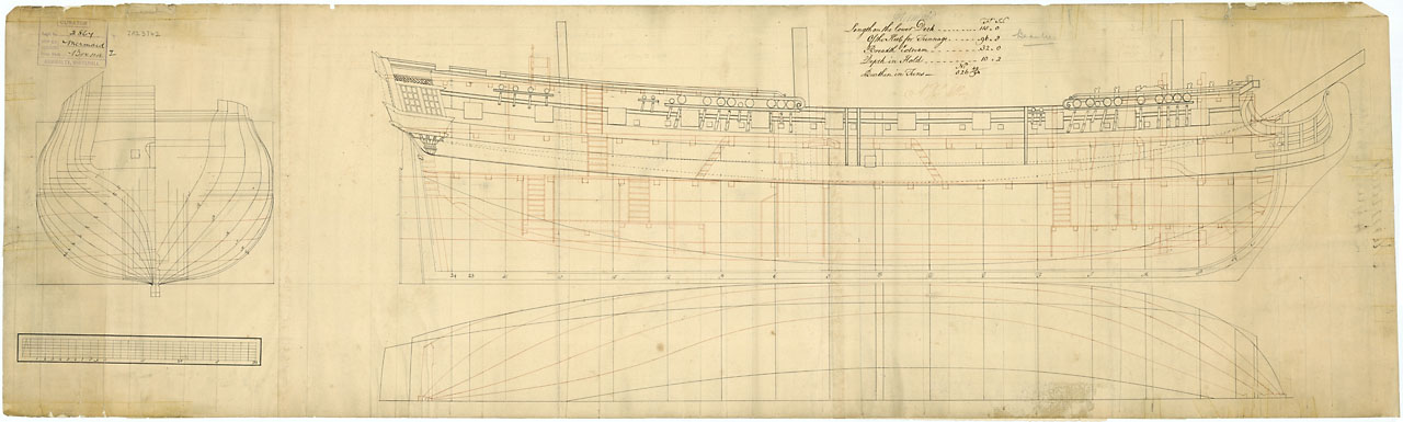 MERMAID 1749 lines & profile